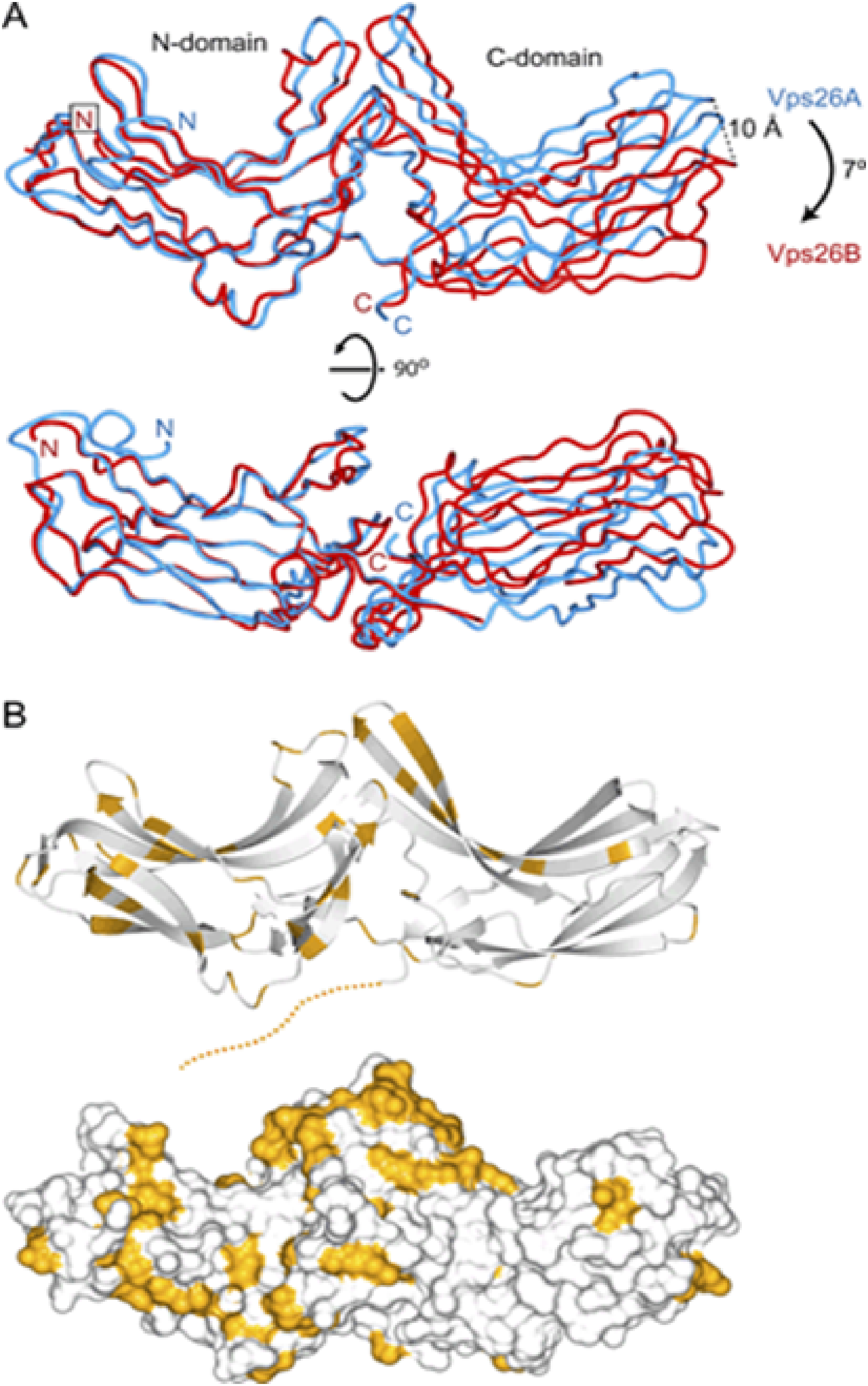 (A) The overlay of human Vps26A (blue) to mouse Vps26B (Red) (Shi et al, 2006). (B) The Ribbon and surface views of Vps26B with residues that are not conserved in Vps26A shown in gold. Majority of the non-conserved residues are found in the surface patch within the N-terminal subdomain and also at the apex of the intersection of the N-terminal and C-terminal domains. The non-conserved C-terminal tail is reflected by the gold dashed line. Figure taken from journal article by Collins et al, 2008